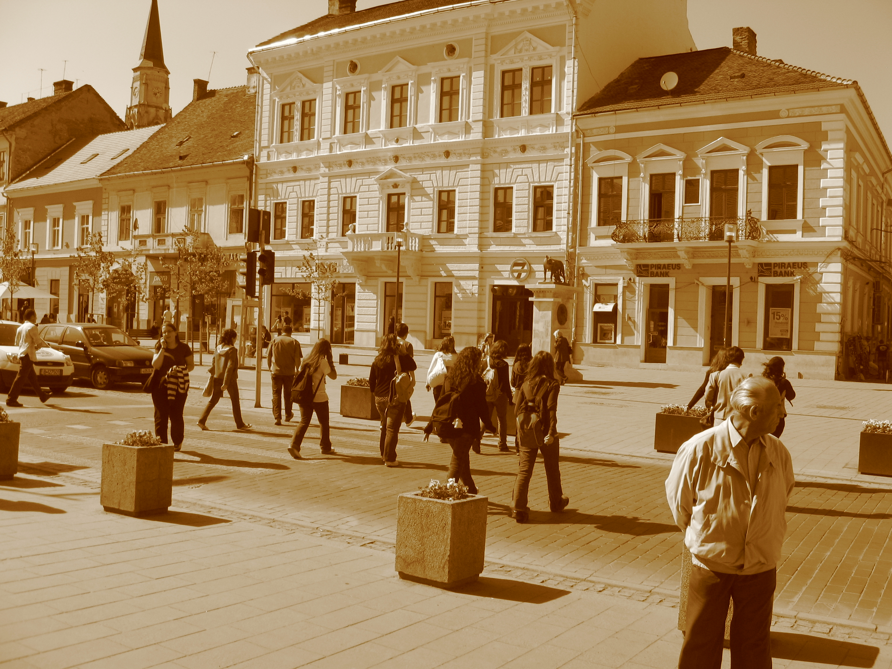 Eroilor Boulevard in Cluj-Napoca, Zebra Crossing